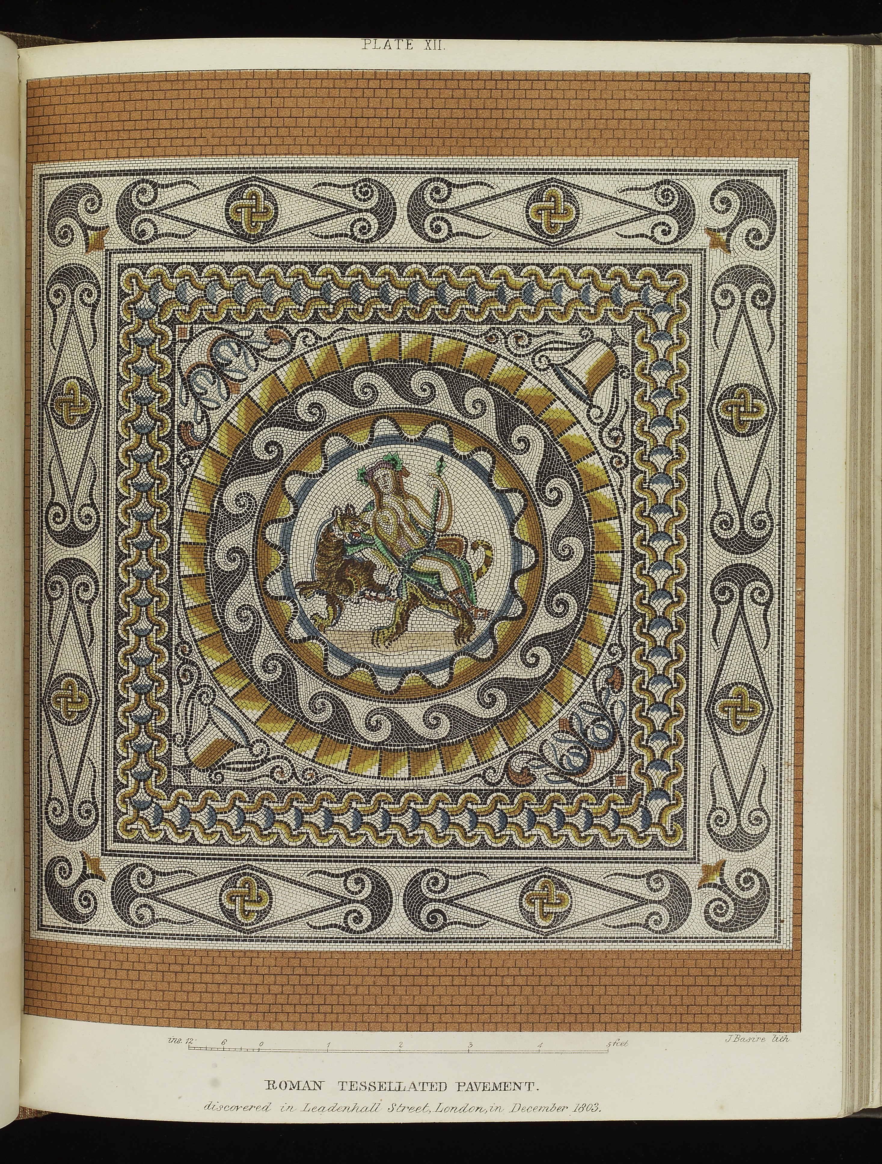 Lithographic illustration showing a Roman tessallated pavement discovered in Leadenhall Street, London, in December 1803. It depicts Bacchus, Roman god of wine, good times, ecstasy, fertility and wild Nature. He carries a pine-cone tipped thyrsus and rides a panther. Rare Books Keywords: Tiles; Bacchus; God; Basire; Antiquity; Roman; London; Mythology; Archaeology; Mosaic